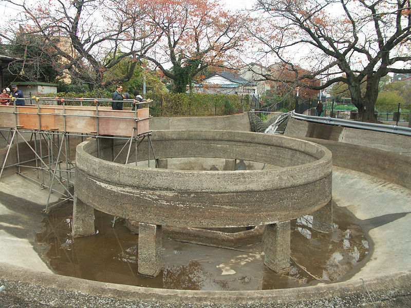 in renovating, without water.